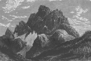 Amelia Edwards drawing of the Monte Pelmo.